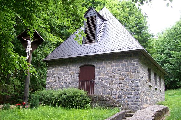 Chapel Zur Not Gottes in Bensheim-Auerbach, Hessen, Germany